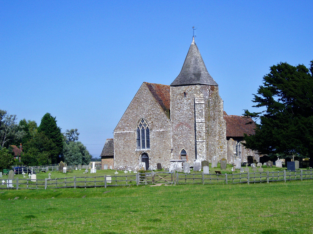 A view of the 12th century St. Clements church, Old Romney, in a picture taken from the main A259 road.